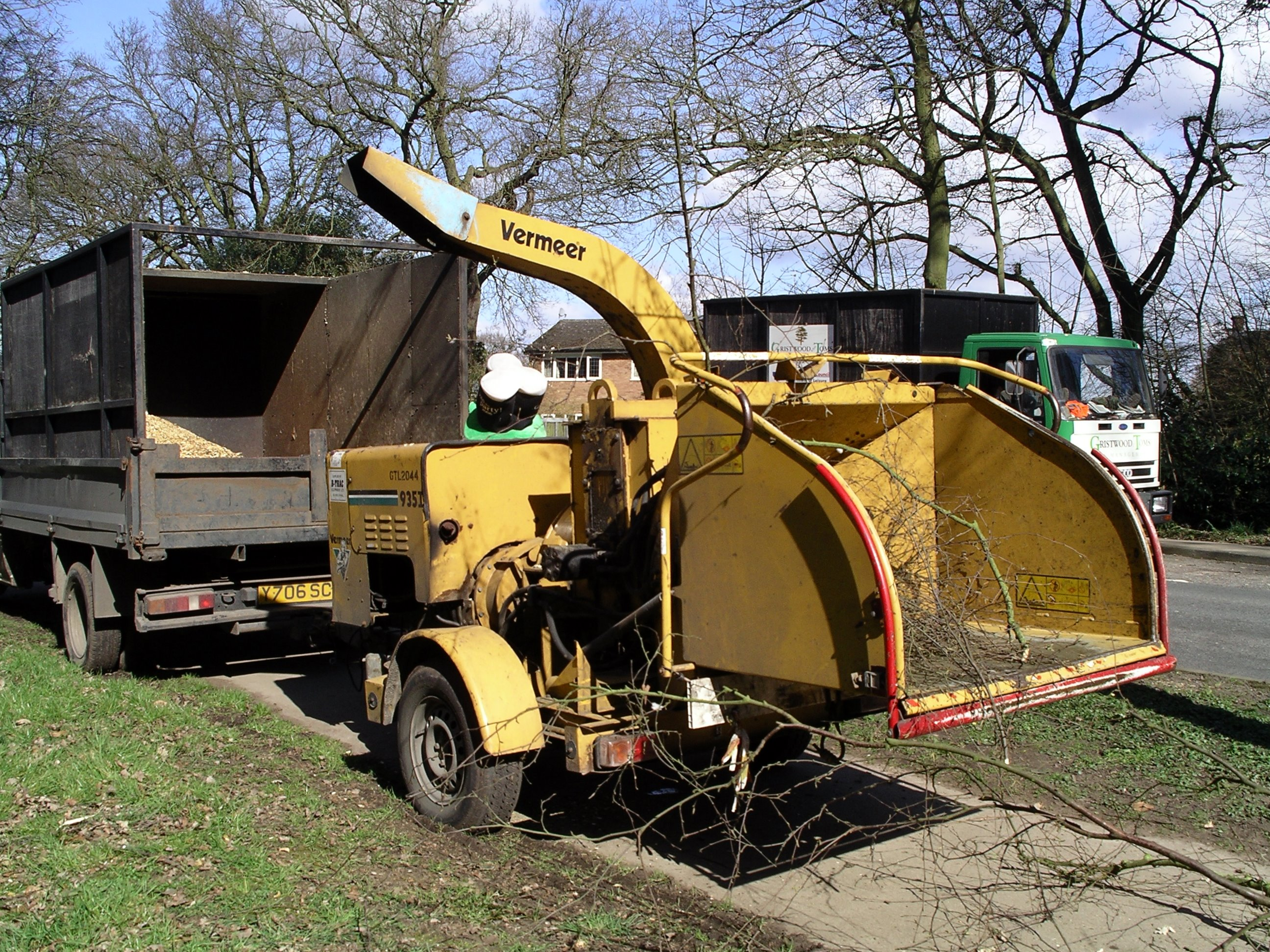 Photo taken by me on 14 March 2007 of a tree shredder in the midlands of England. The photo also shows the truck by which was towed and in which the shredded pieces were collected and taken away.